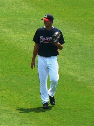 I took this picture during batting practice on August 18, 2008 at Turner Field.